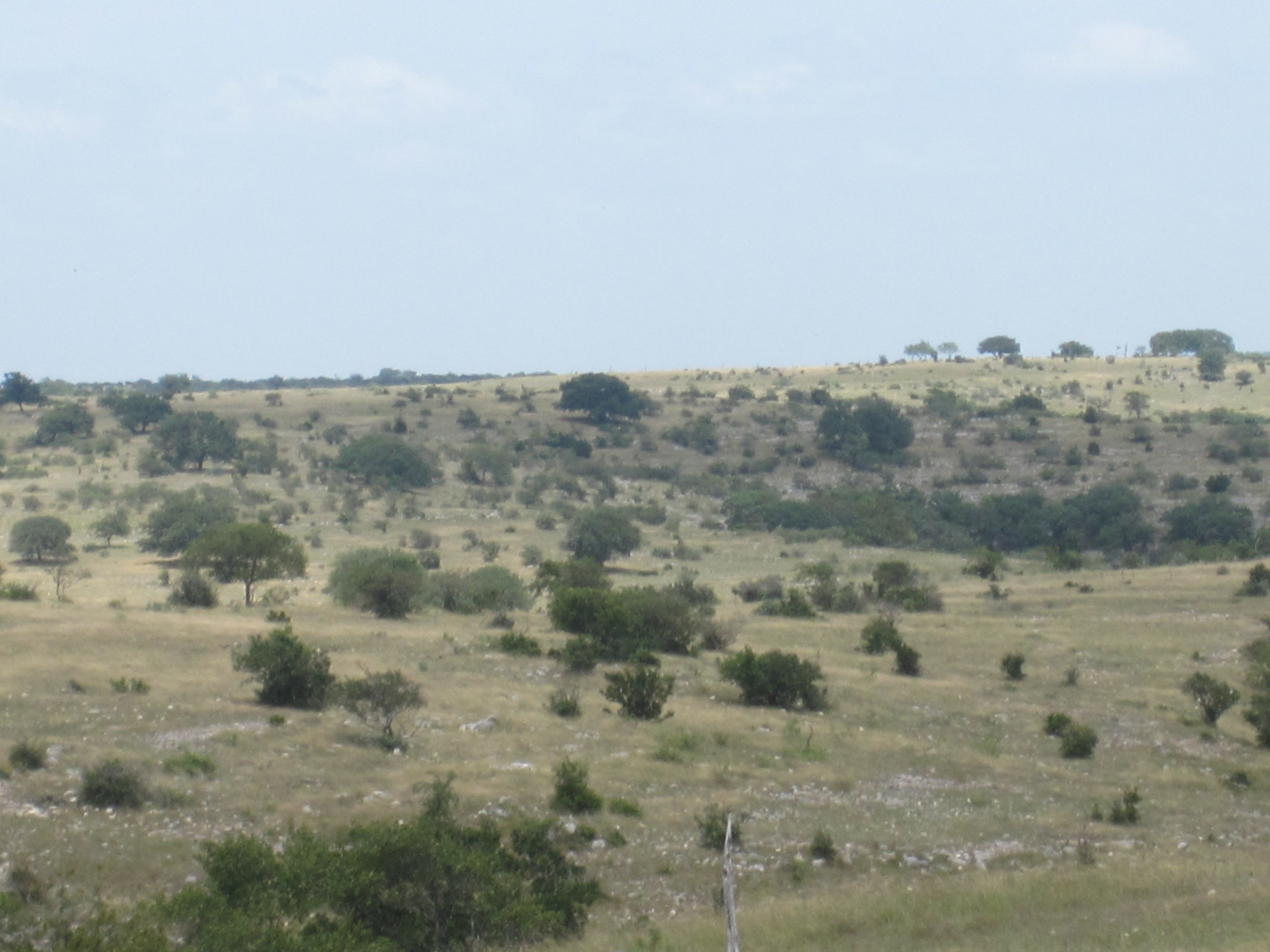 I took photo of scrub vegetation in Texas Hill Country near Junction, TX.